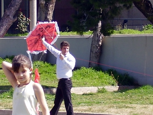 Kite-flyer on Clean Monday in Thessaloniki (Macedonia, Greece).